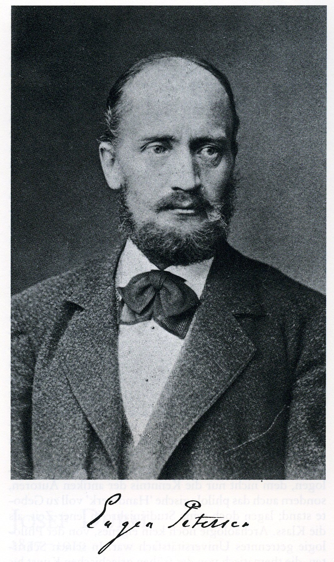 German Archaeologist Eugen Petersen (1837-1919)